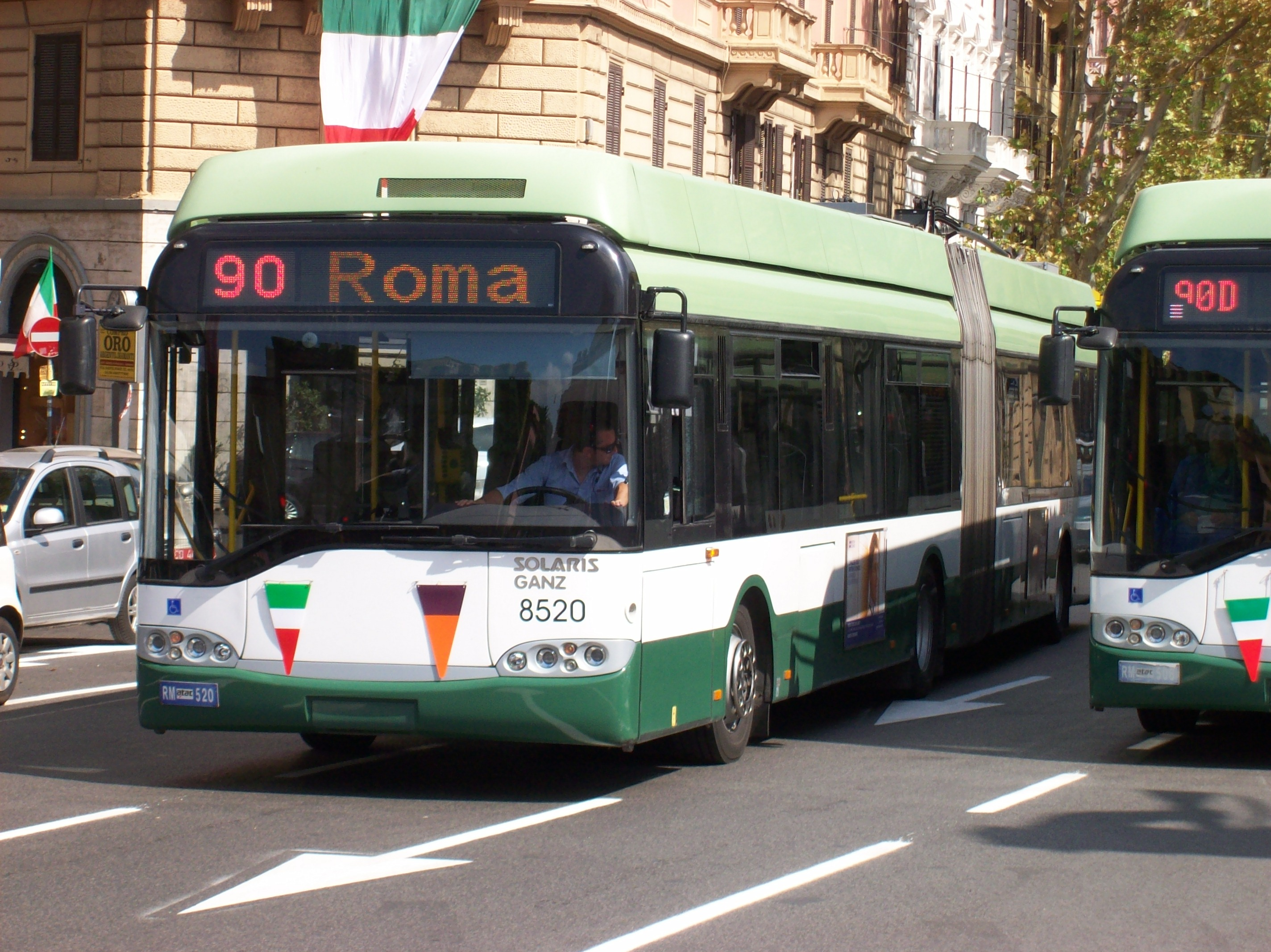 Trolleybus Solaris Ganz Trollino number 8520 serving as line n° 90 in Rome (photo taken near Porta Pia)